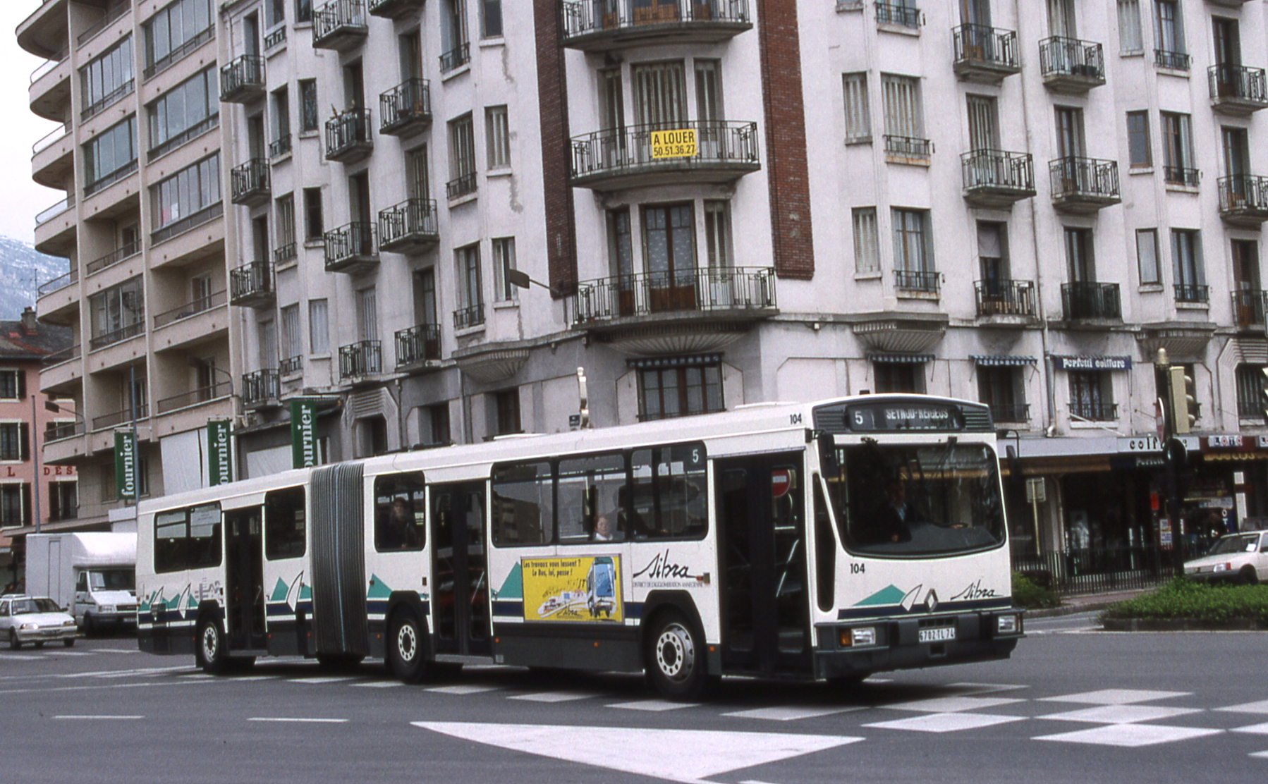 An Renault PR 180.2 (n°104 of the SIBRA) running on SIBRA’s line 5 (Annecy, France) in April 1994.